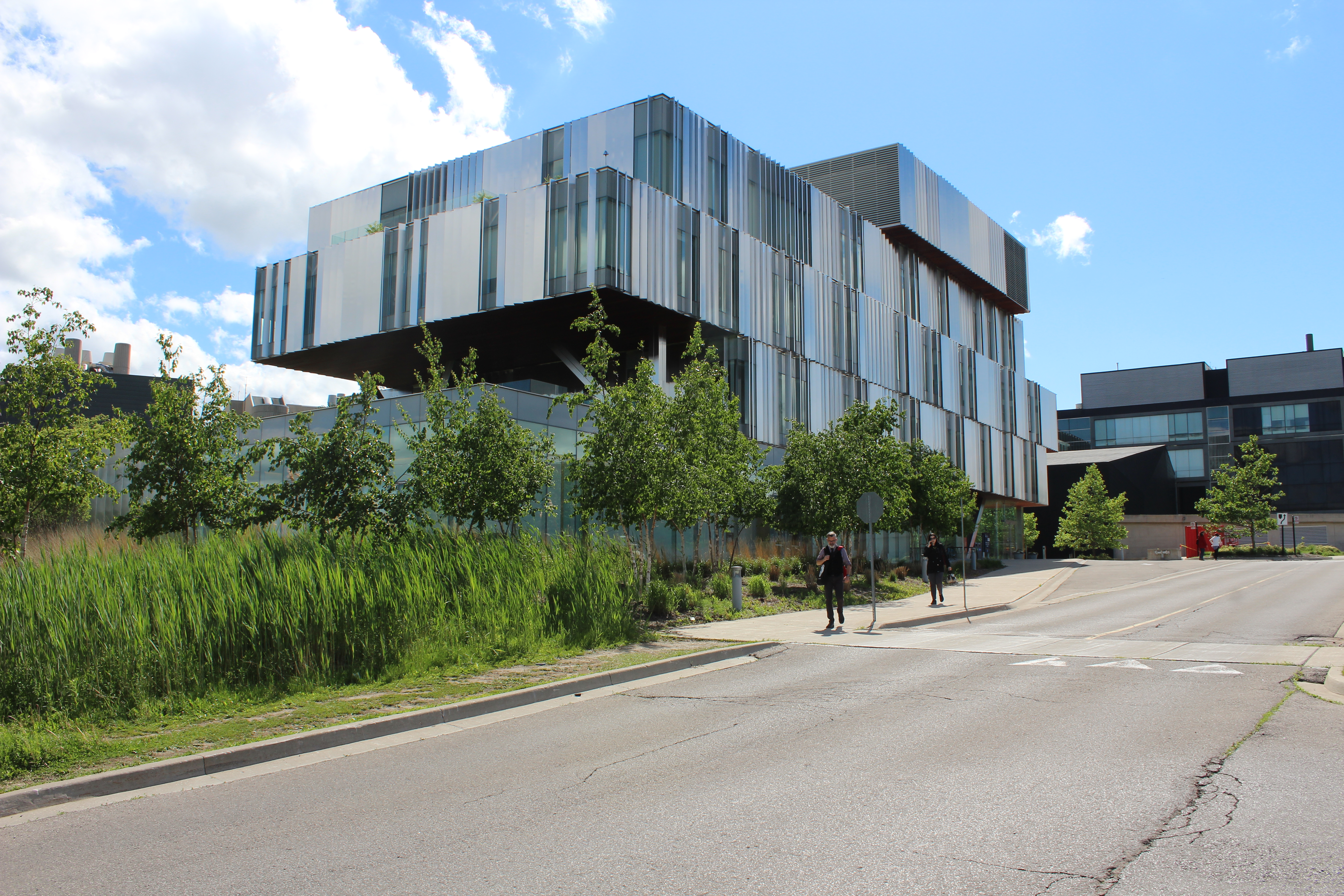 Health Sciences Complex, University of Toronto, Mississauga.